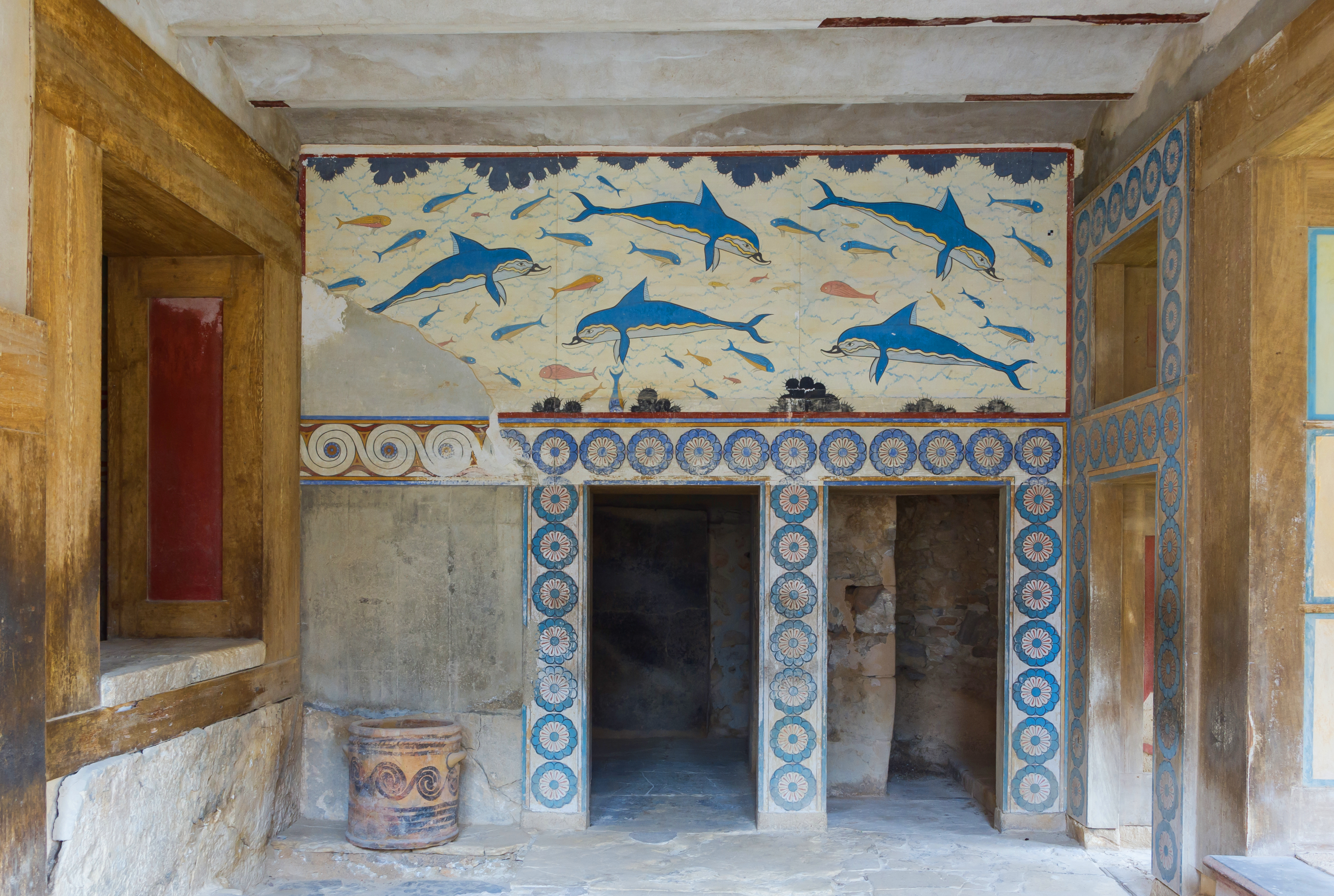 The Queen's Megaron, with the dolphin fresco (copy) at Knossos palace, Crete, Greece.